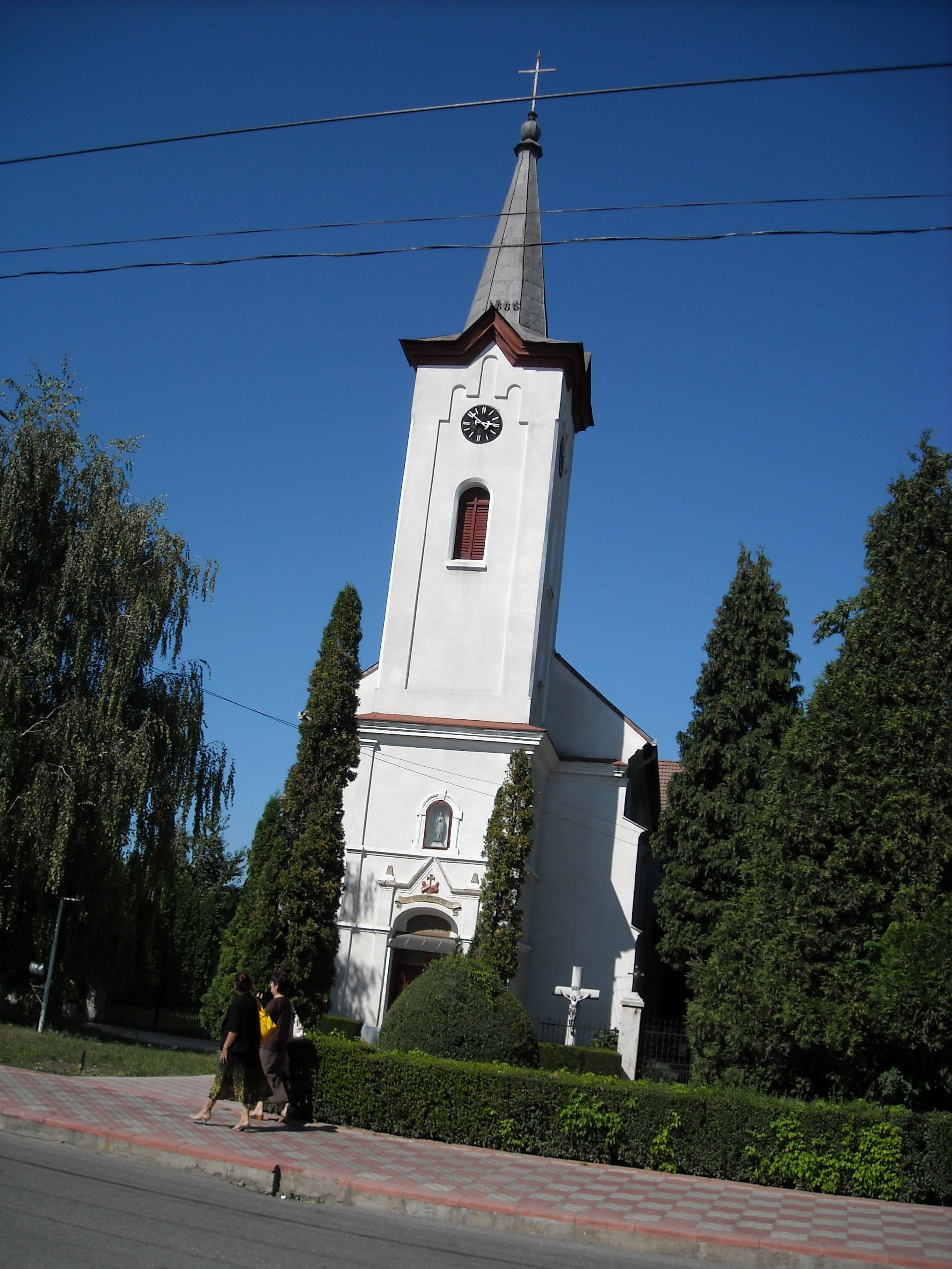 Roman Catholic church in Simeria (Piski), Romania